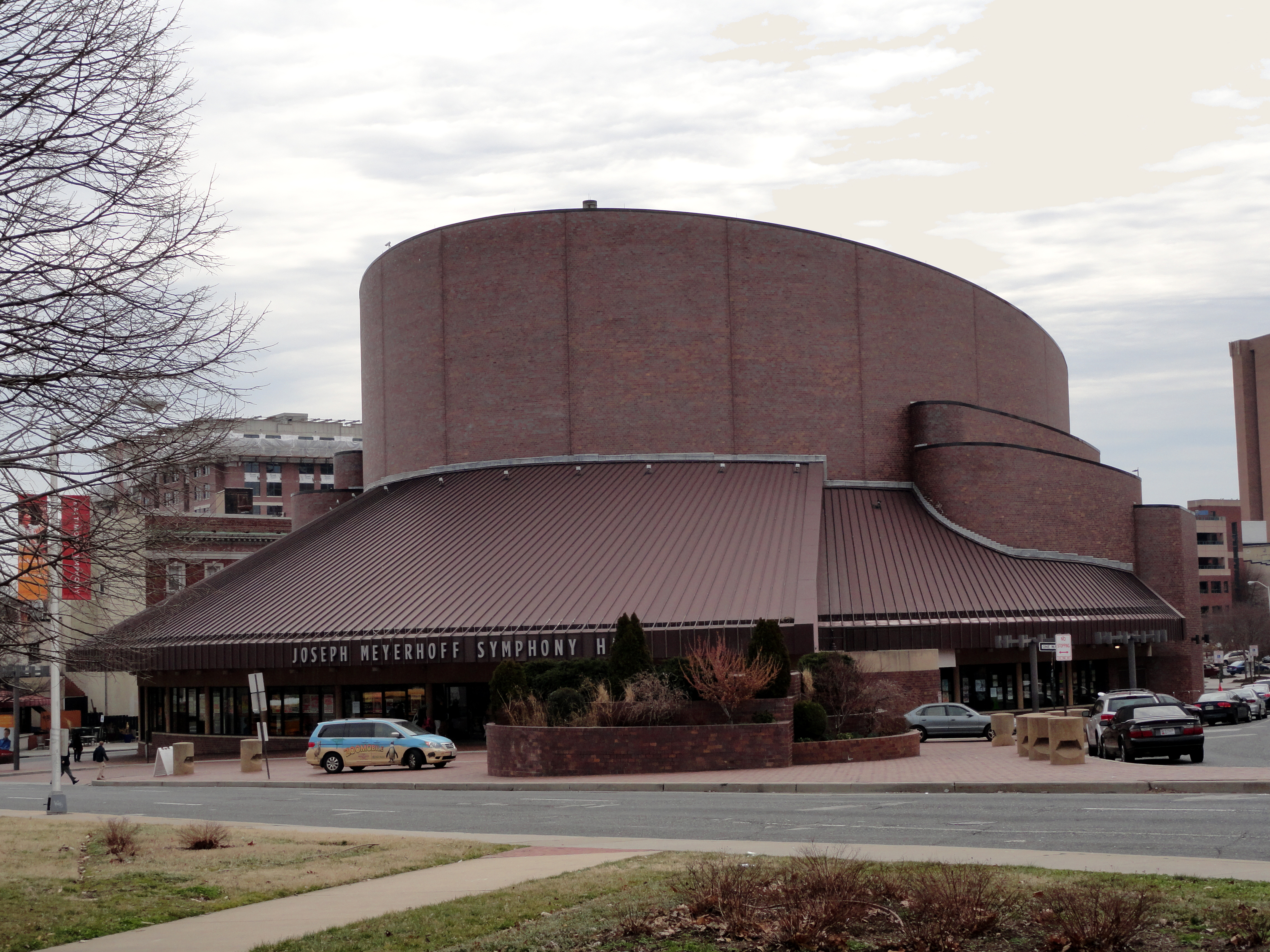 Joseph Meyerhoff Symphony Hall in Baltimore, Maryland, USA. Completed in 1982.